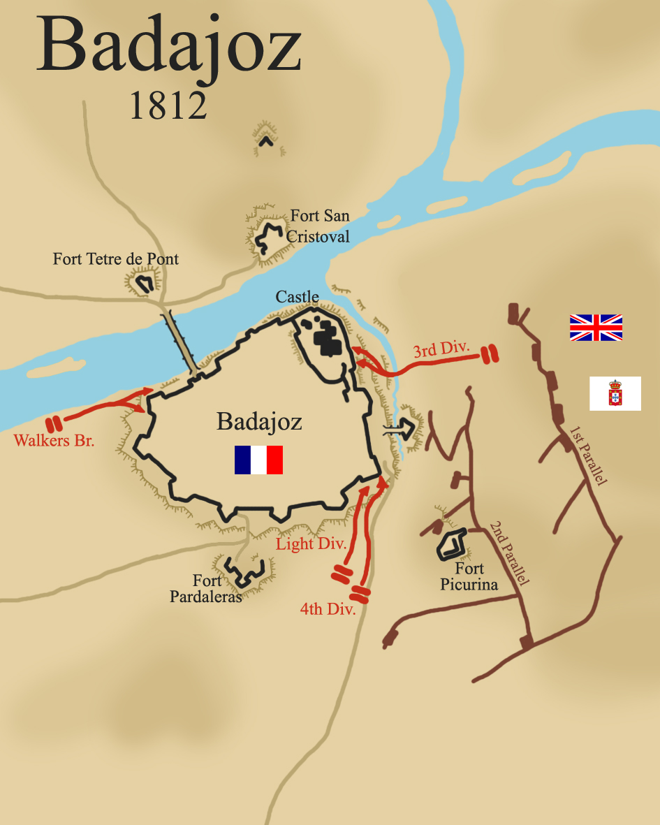 Map of the British-Portuguese siege of the French held, Spanish city of Badajoz. 1812.